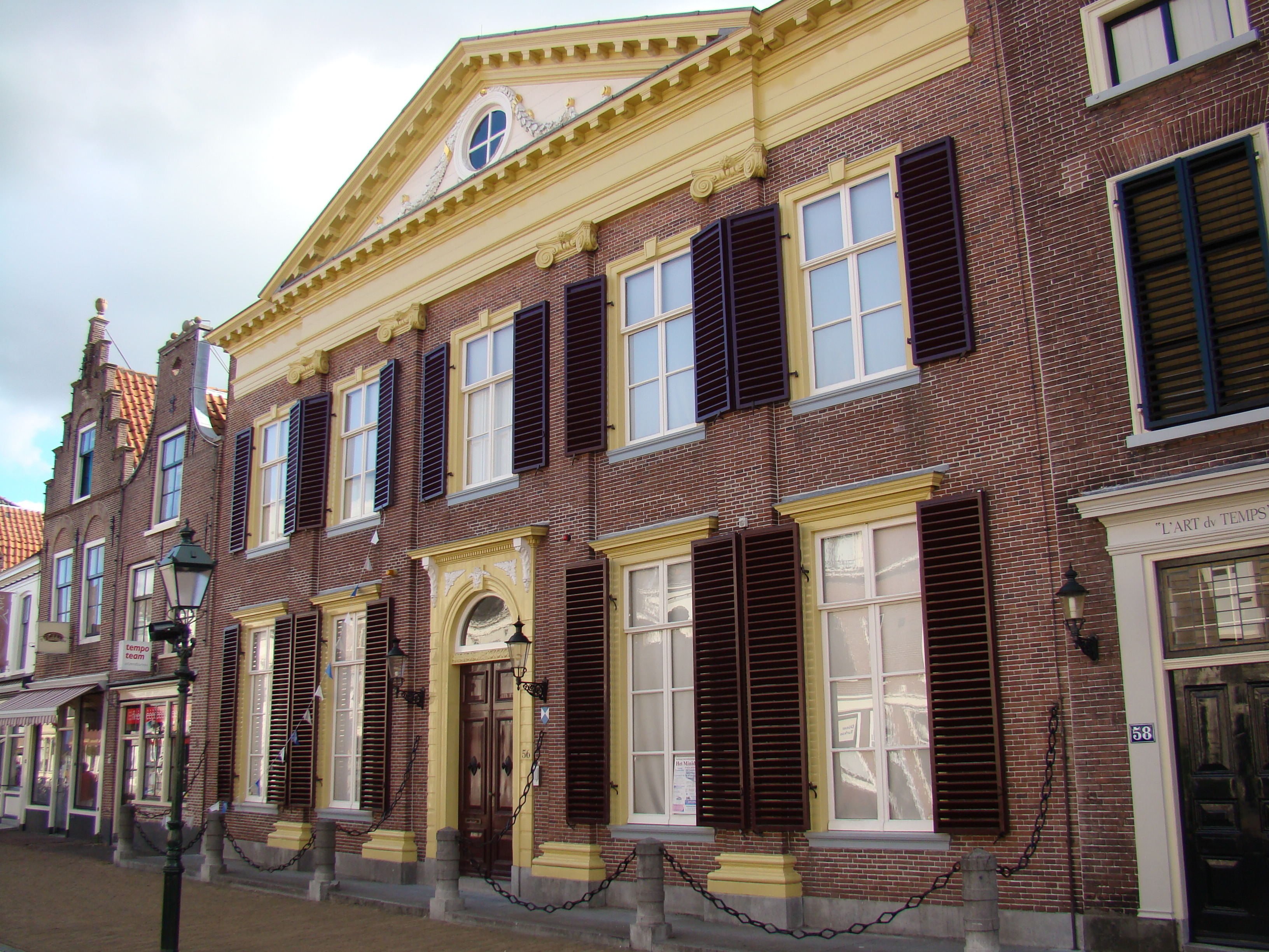 Monumental buildings in Vianen, the Netherlands